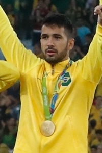 BRASIL GANHA OURO INÉDITO NO FUTEBOL OLÍMPICO